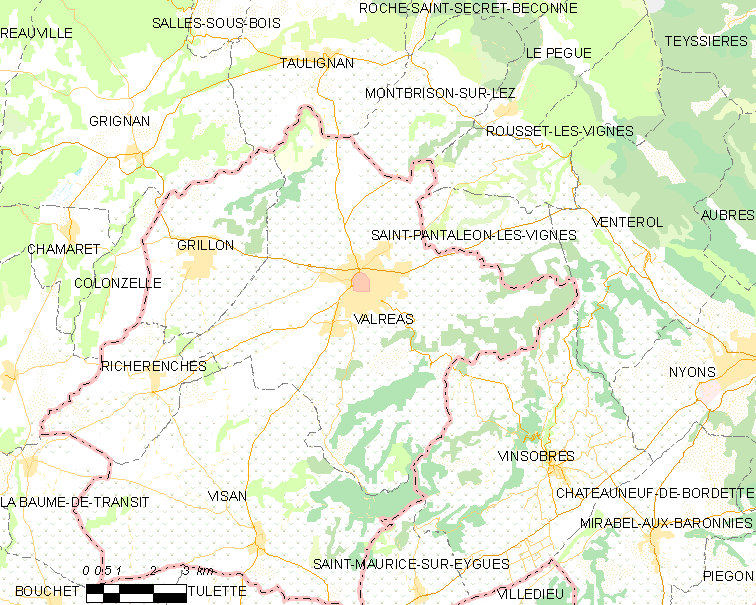 Map of French municipality Valréas